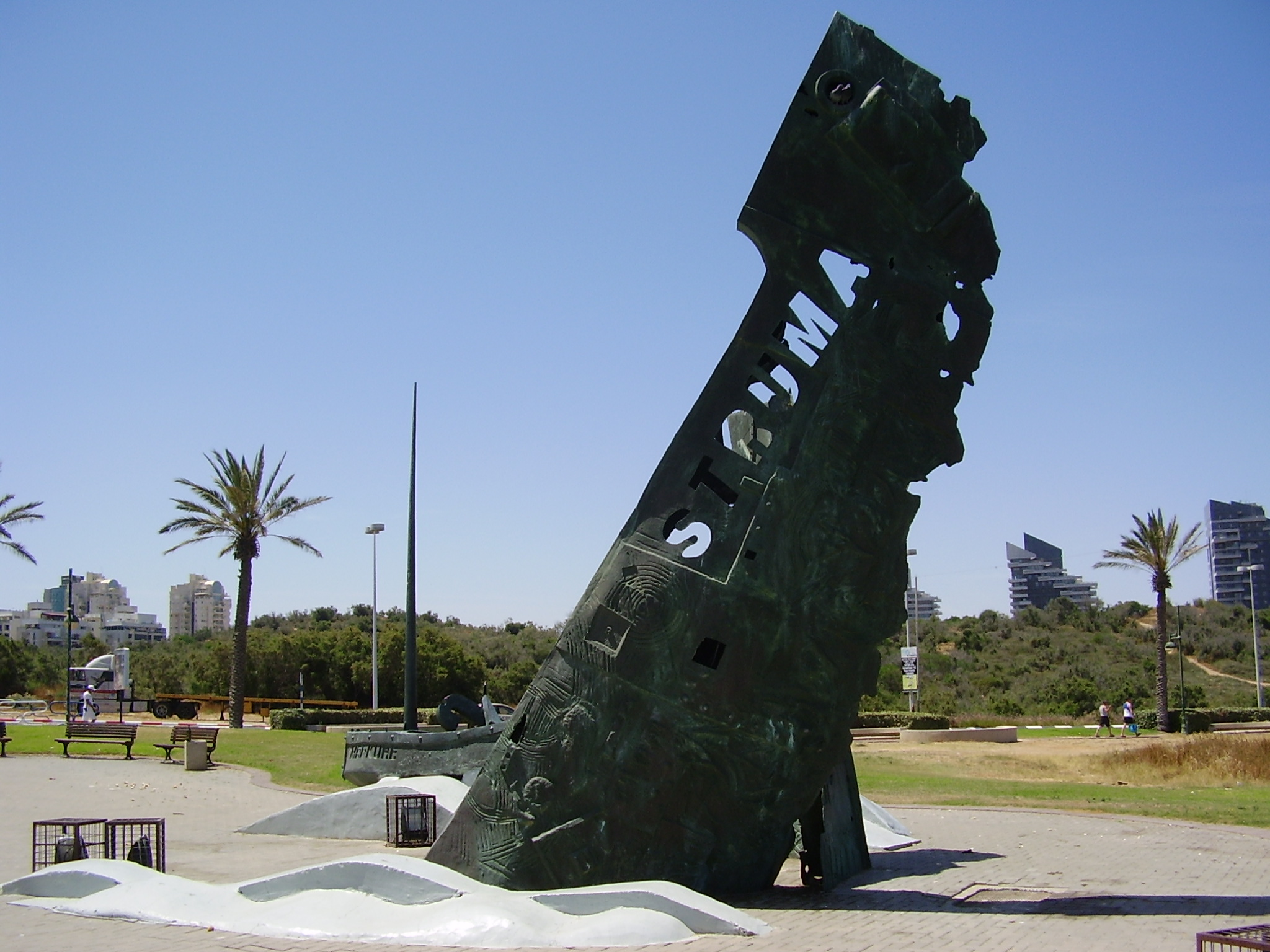 Immigrants ship STRUMA monument in Ashdod, Israel